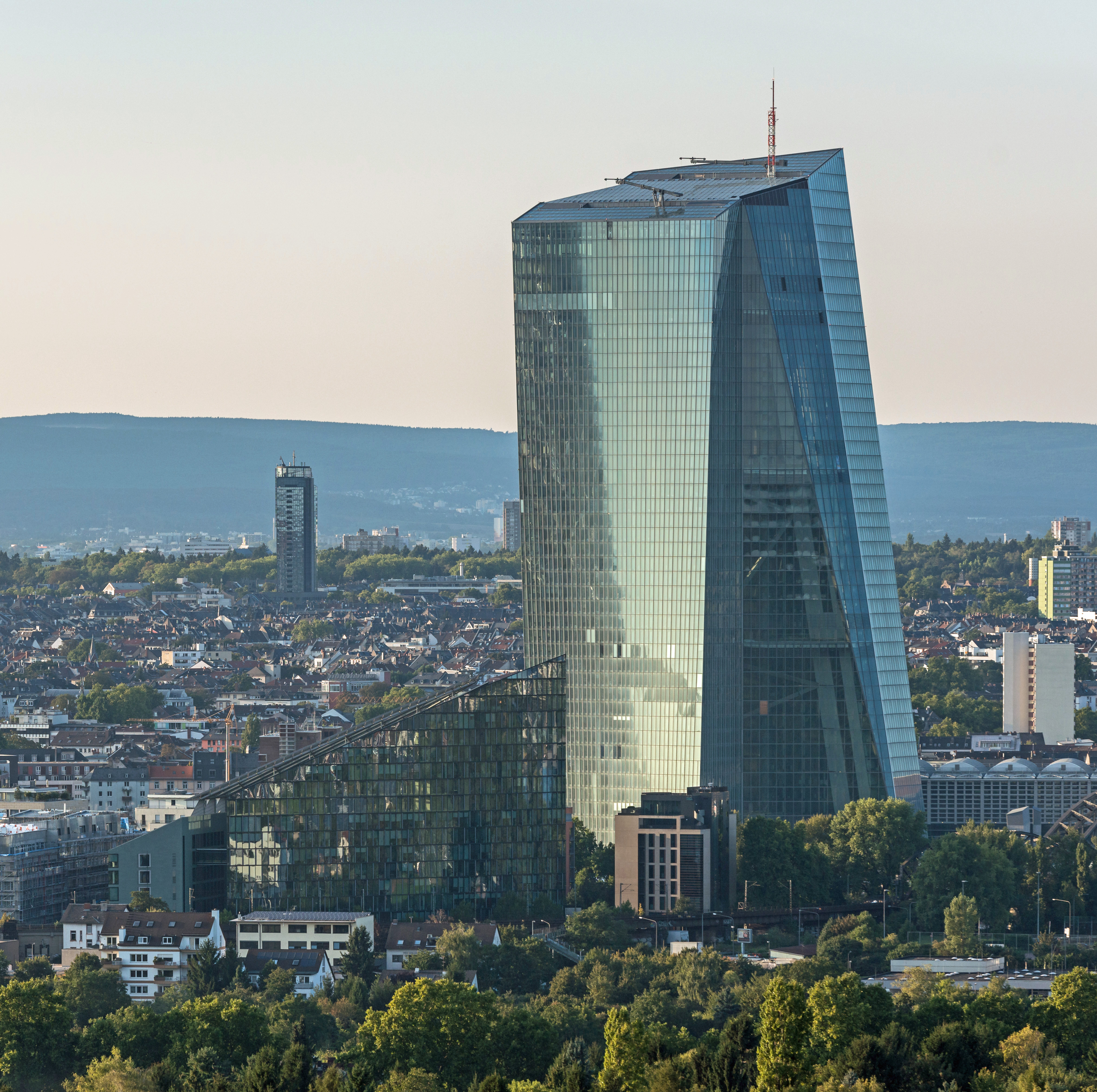 The newly built ECB headquarters in Frankfurt as seen from the Goetheturm